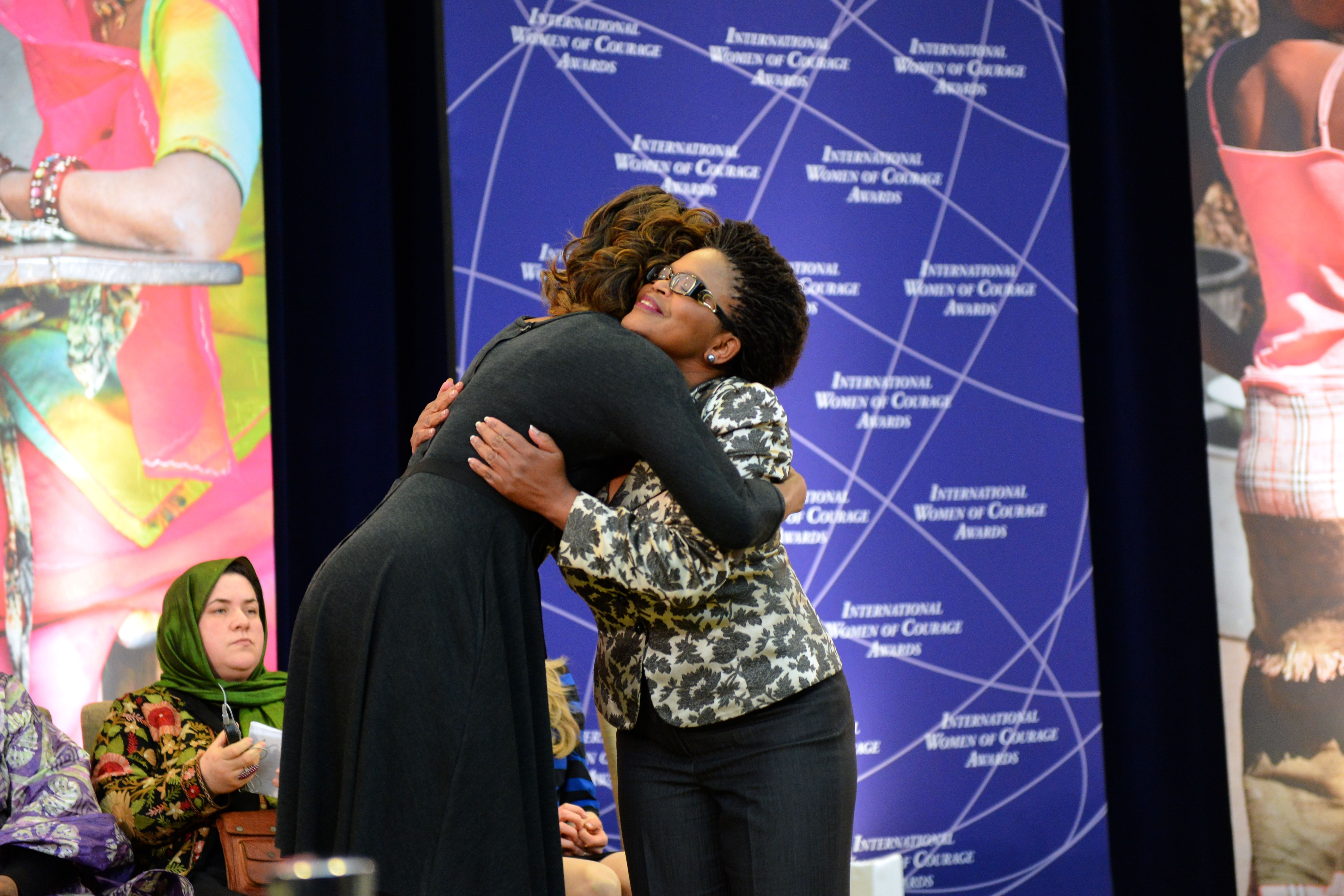 First Lady Michelle Obama embraces 2014 International Women of Courage Awardee Beatrice Mtetwa, a human rights lawyer in Zimbabwe, at the 2014 Secretary of State’s International Women of Courage Award Ceremony at the U.S. Department of State in Washington, D.C., on March 4, 2014. [State Department photo/ Public Domain]